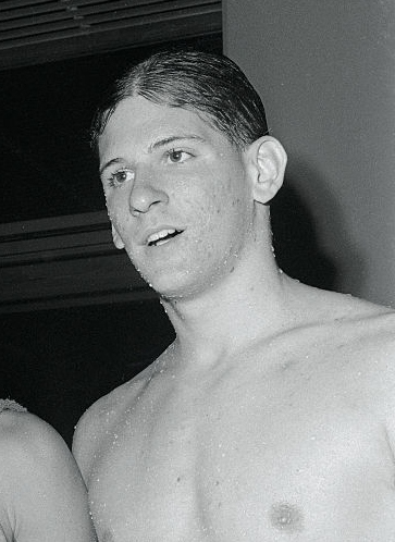 1967 Press Photo, Larry Barbiere